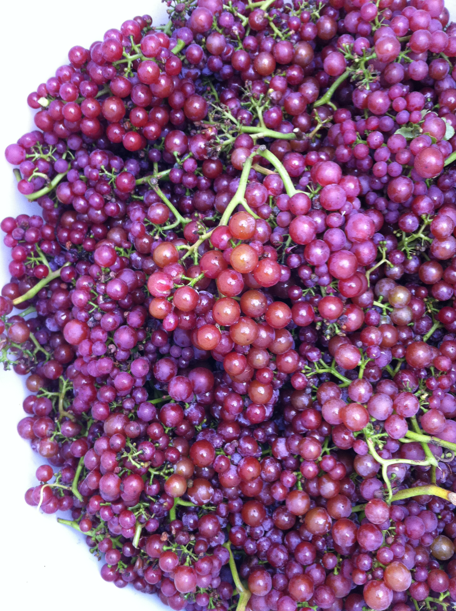 Siegerrebe grapes grown in the Puget Sound AVA of Washington State